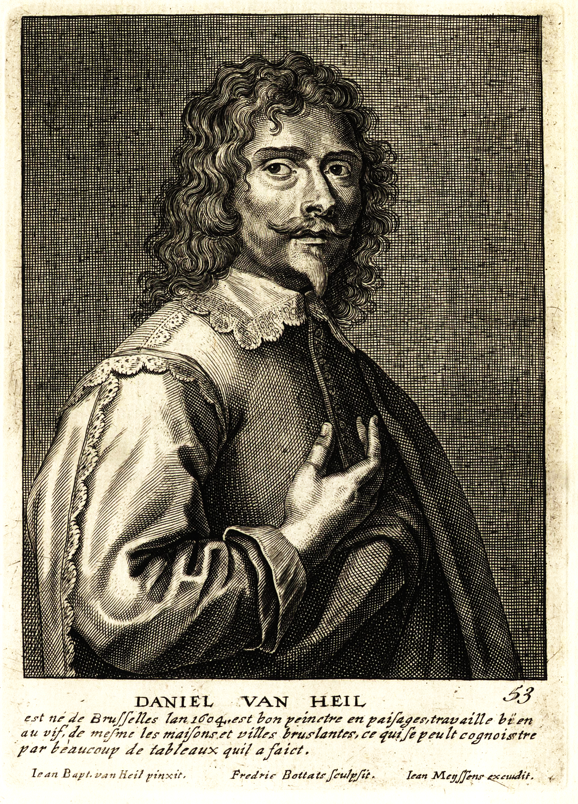 Portrait of Daniel van Heil in Cornelis de Bie's Gulden Cabinet.